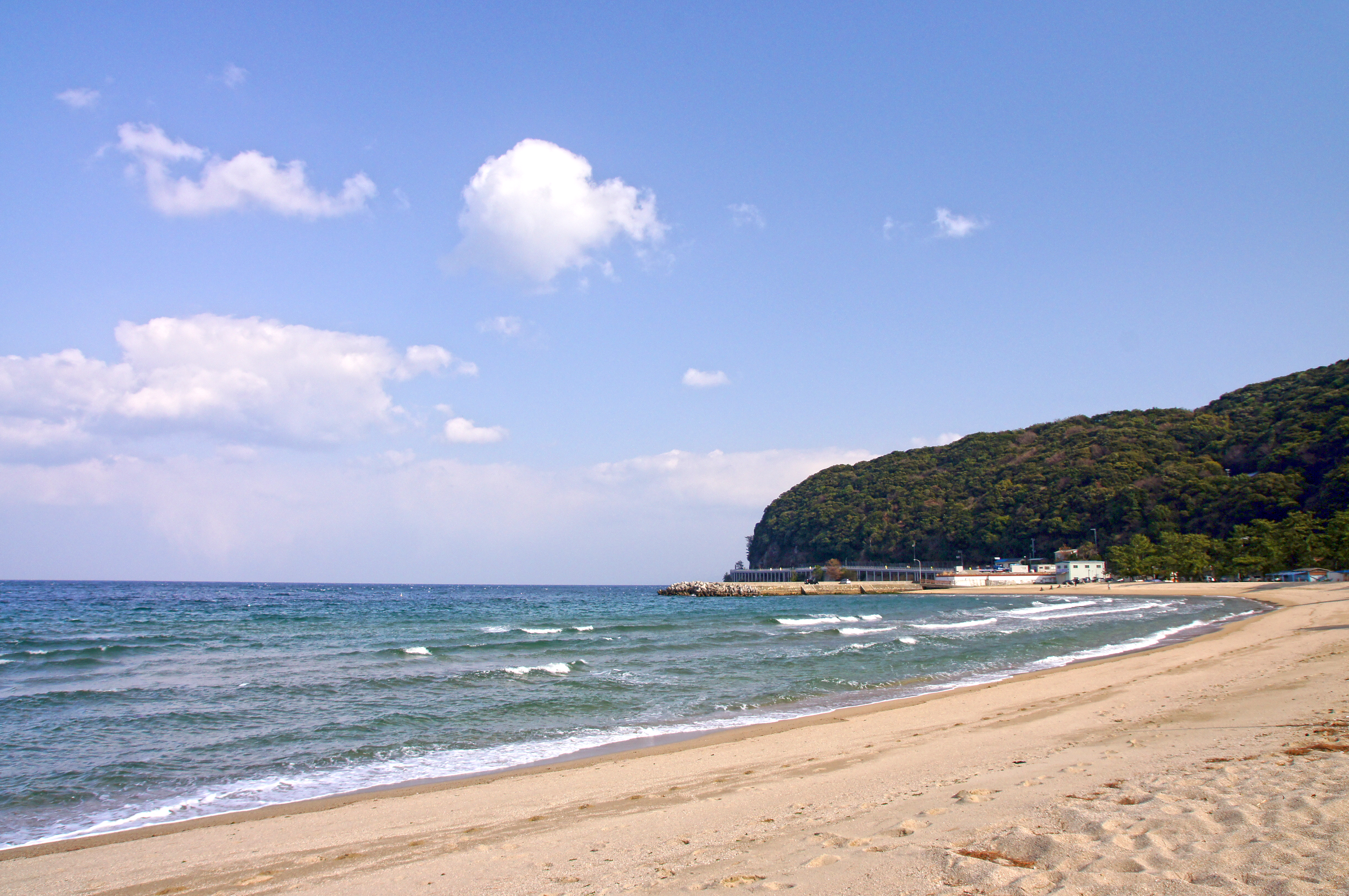 Ohama_Coast in Sumoto, Hyogo prefecture, Japan.